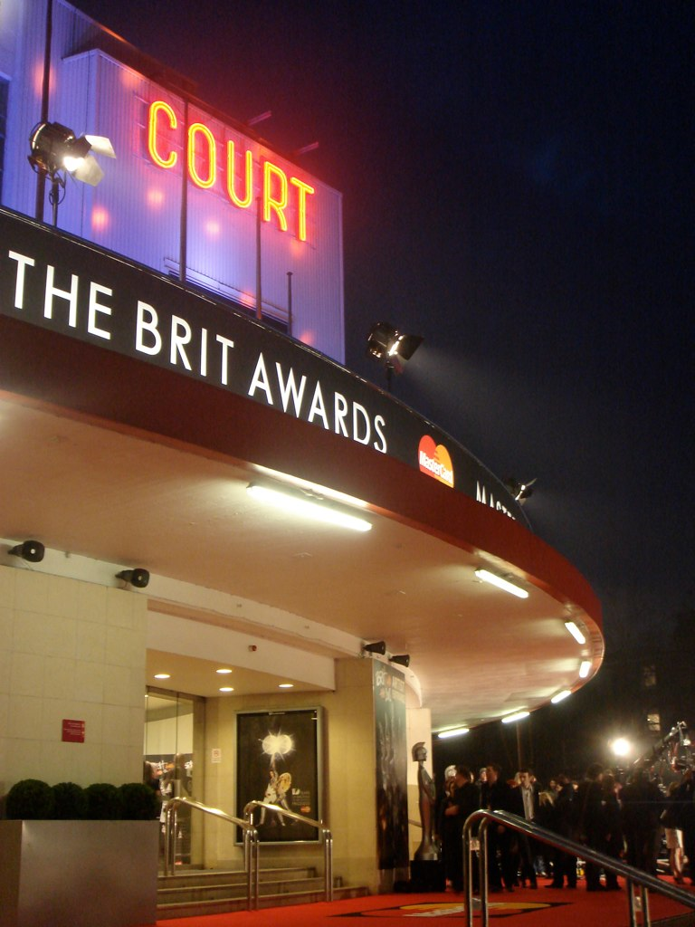 The entrance to Earls Court Exhibition Centre in London. The evening of the 2008 BRIT Awards ceremony